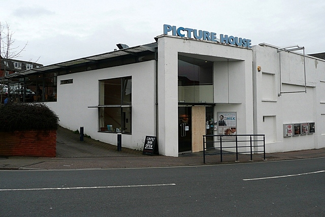 Exeter Picture House On Bartholomew Street West. Situated on the site of a 1930s bus garage, and opened as a picture house in 1996.